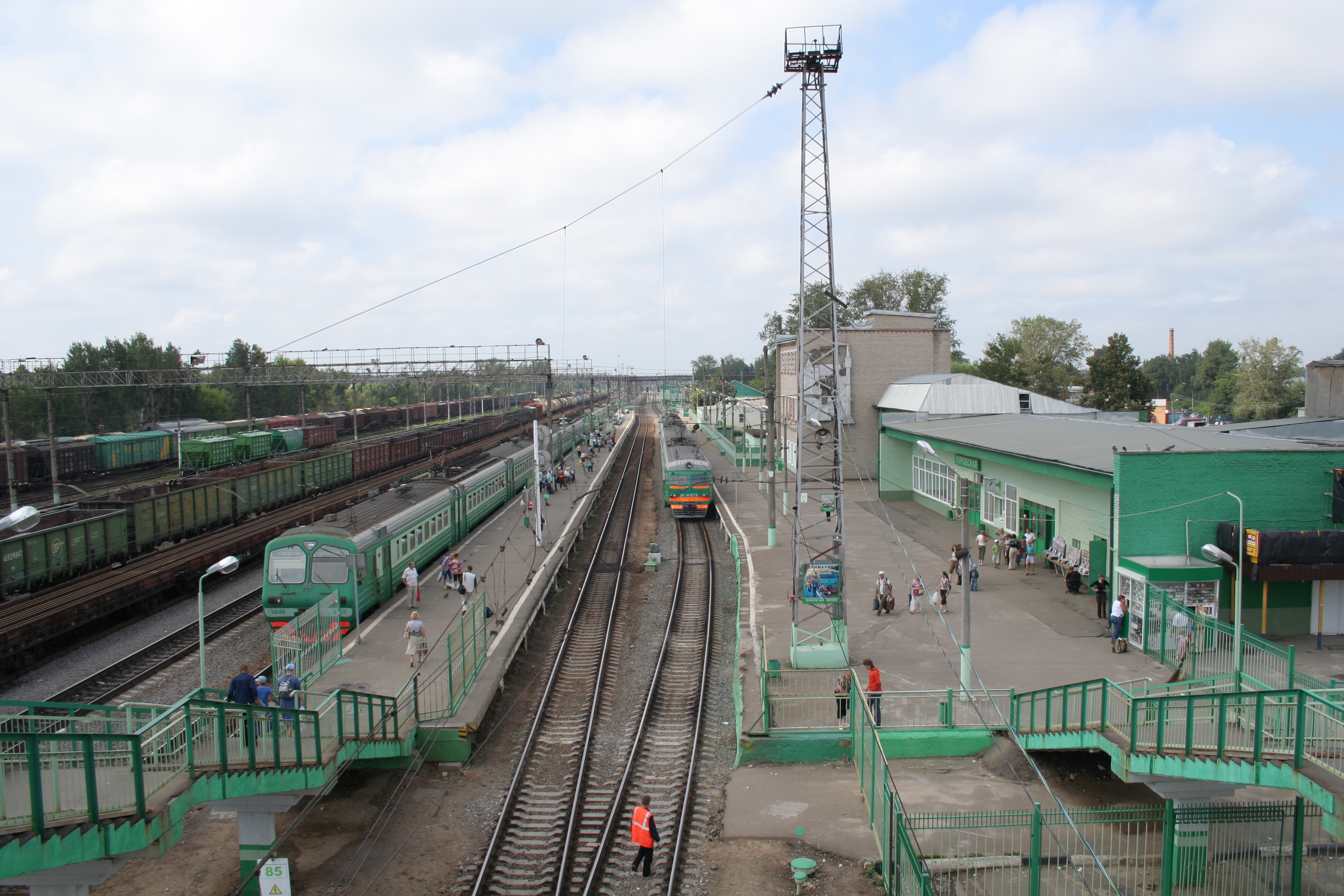 Train station in Kurovskoye, Moscow Oblast, Russia.